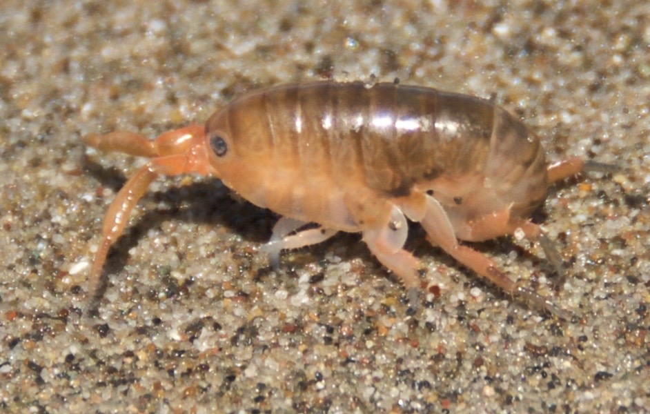 Don't know if this IS a Sand Crab since it doesn't look like Jerry Kirkhart's sand crab image on Wikipedia. I'm wondering if this might be a young version of the creature (he's a bit smaller than adult sand crabs and not as wide). I found three or four look-alikes, all headed towards the water after a wave receded. Any ID help would be appreciated. Oh, one more thing - they can jump a little, too. Pacific Sand Crab or Sand Mole - maybe Emerita analoga - maybe Thanks Marlin - Megalorchestia californiana, a distant relative of the sand crab (emphasis on 'distant').